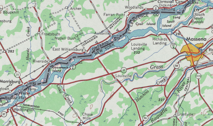 A cropped portion of the United States Geological Survey's 1951 1:250,000 scale topographic map of Ogdensburg, New York. The crop is mainly centered on NY 37B, but it may be suitable for other uses as well.